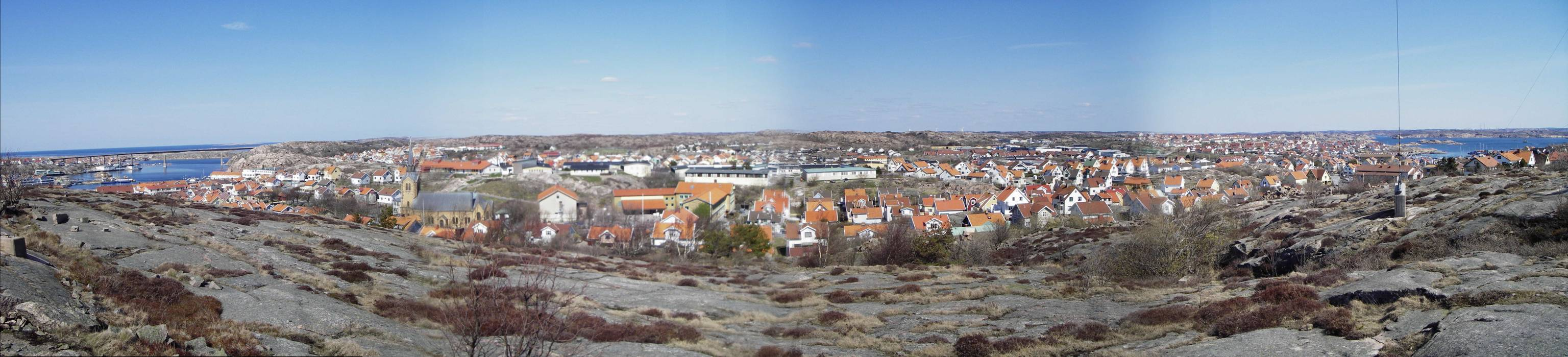 Pano-vision over Kungshamn, Sweden